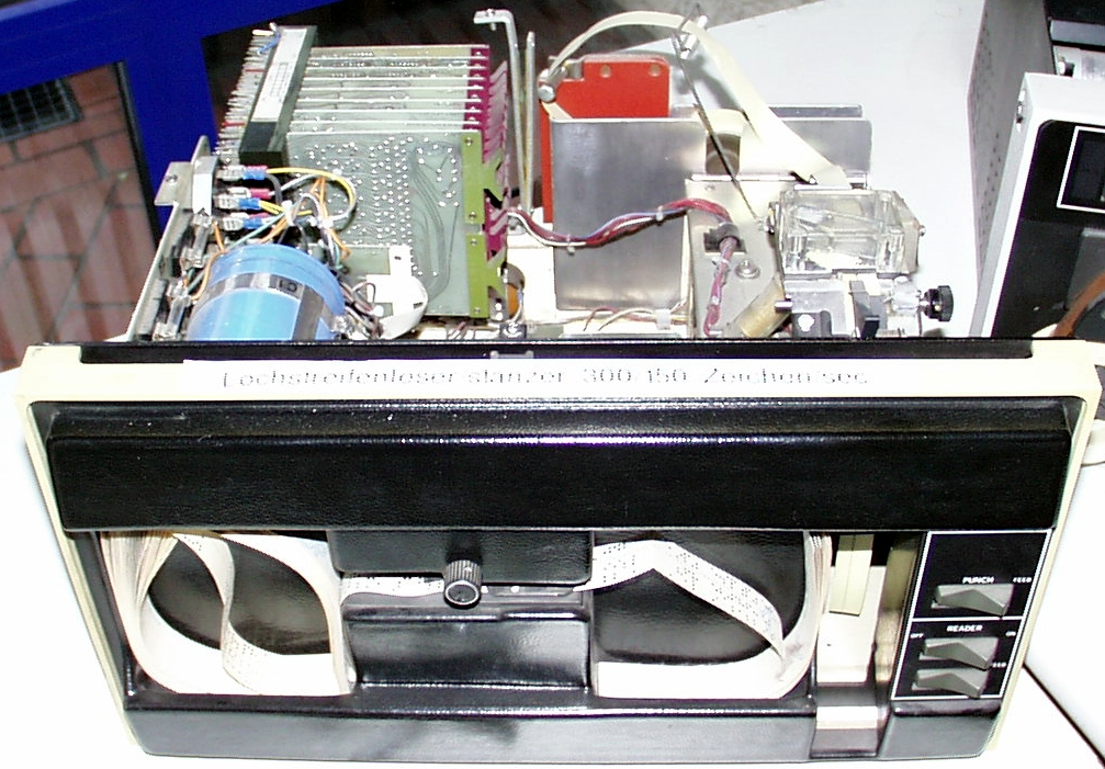 Digital Equipment Corporation PTR/PTP10 Papertape Reader/Punch